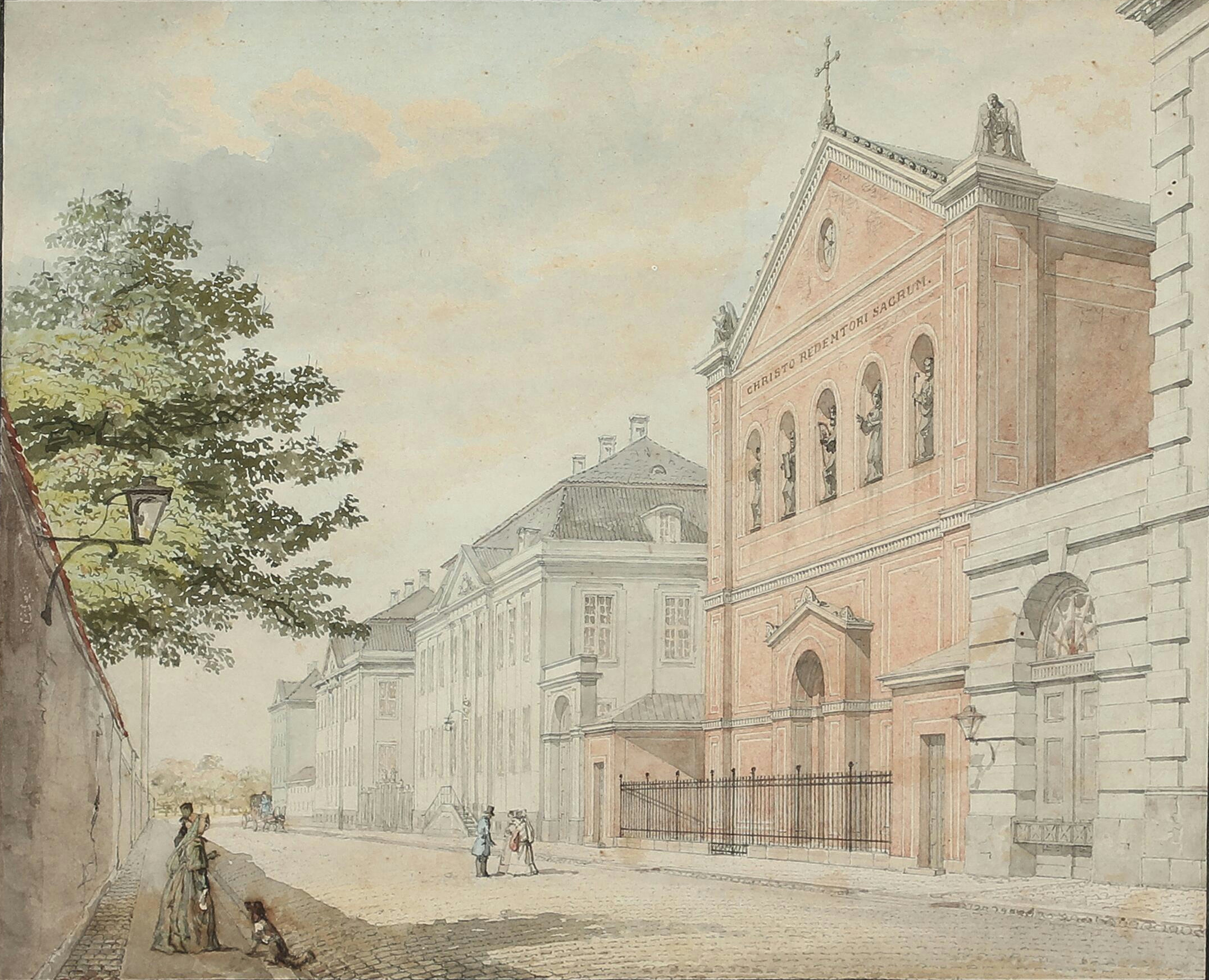 Bredgade withy St. Ansgar's Church in Copenhagen, Denmark